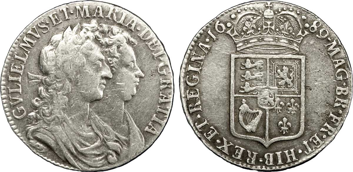 Un demi crown à l'effigie de Guillaume et Marie, 1689. Description avers : portraits à droite de Guillaume III et Marie II . Description revers : écus couronnés d’Angleterre, Écosse, Irlande et France, quatre monogrammes formés d’un M et d’un W croisés, au centre armes de la maison de Nassau . Fille de Jacques II Stuart, Marie se marie en 1677 avec le Stathouder et prince d’Orange protestant, le futur Guillaume III. A la suite de la “Glorieuse Révolution”, Jacques II prend la fuite. Avec l’accord du parlement, Guillaume et Marie deviennent conjointement roi et reine d’Angleterre en 1689..